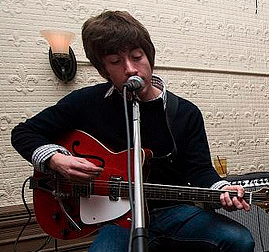 SoundFix08